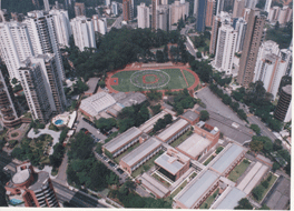 Picture of Graded School in São Paulo Brazil, during the institution's 80th anniversary celebrations in 2001. Students are assembled in the upper field in the shape of the school's "G" logo.